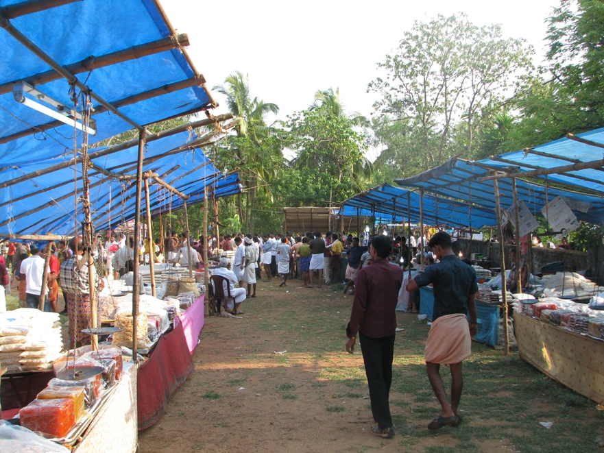 Stalls set up during Puram in Chermanangad